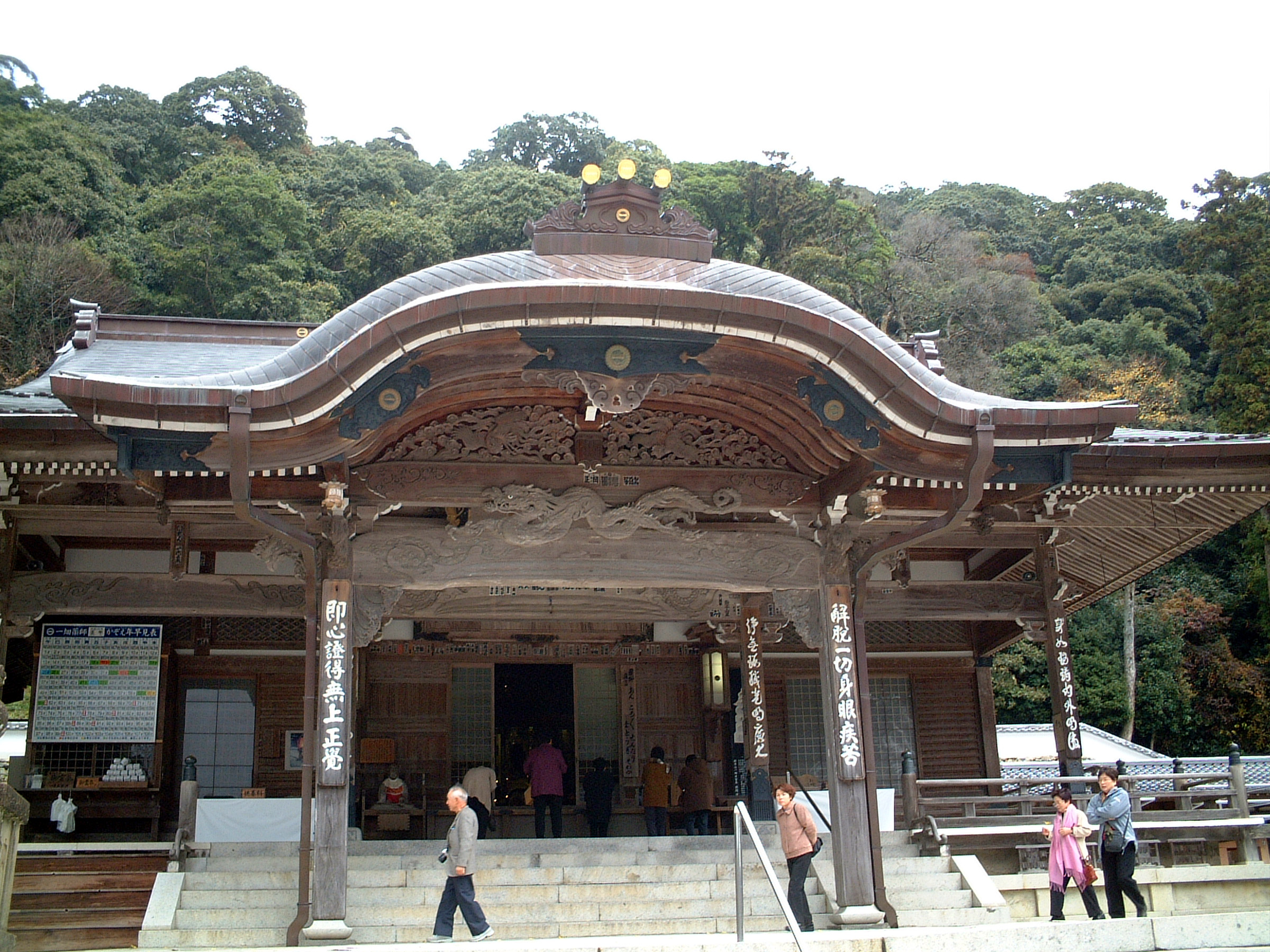 Ichibataji. Photo taken in Shimane Japan.